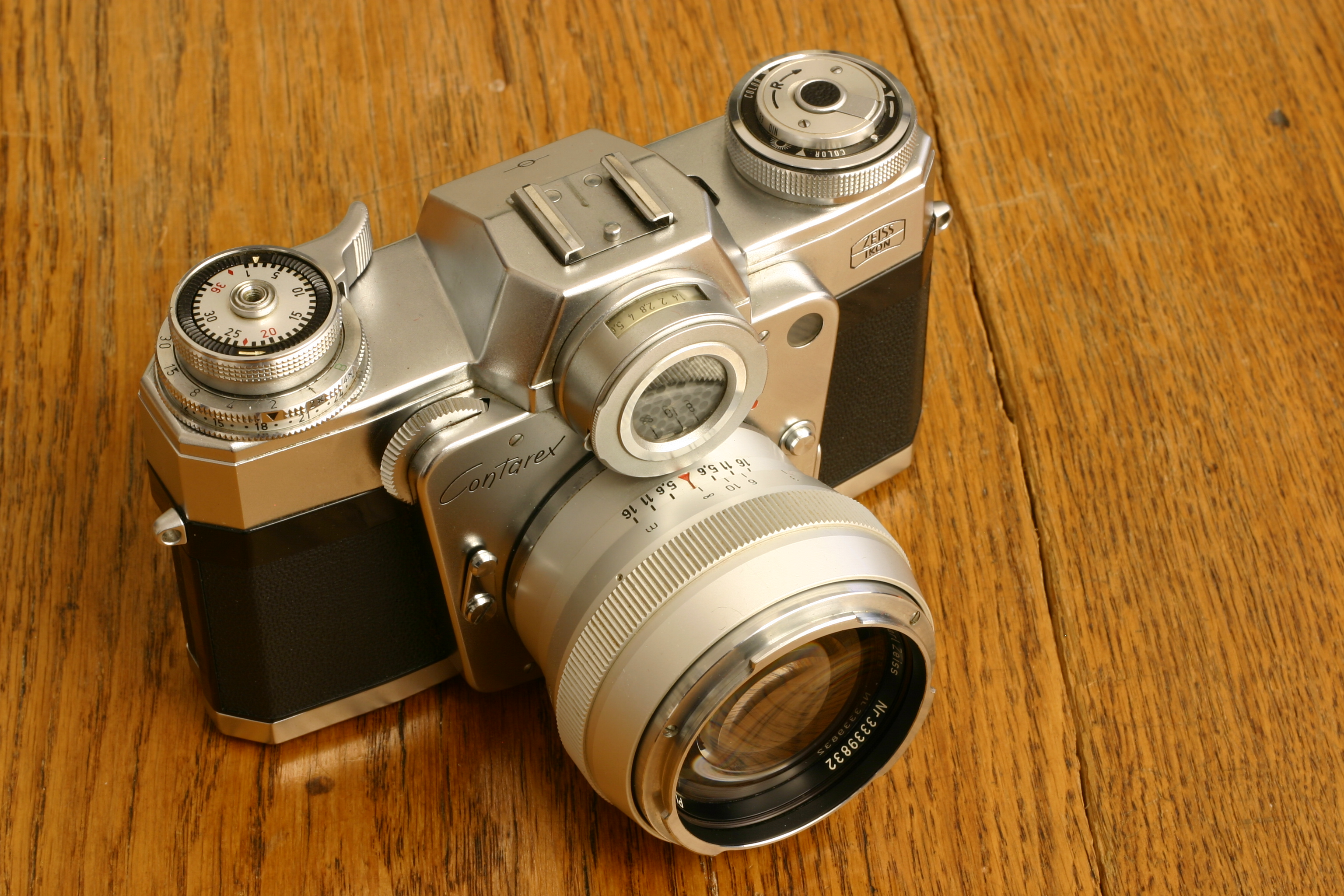 Zeiss Ikon Contarex with Zeiss Planar 55mm 1:1.4 lens.